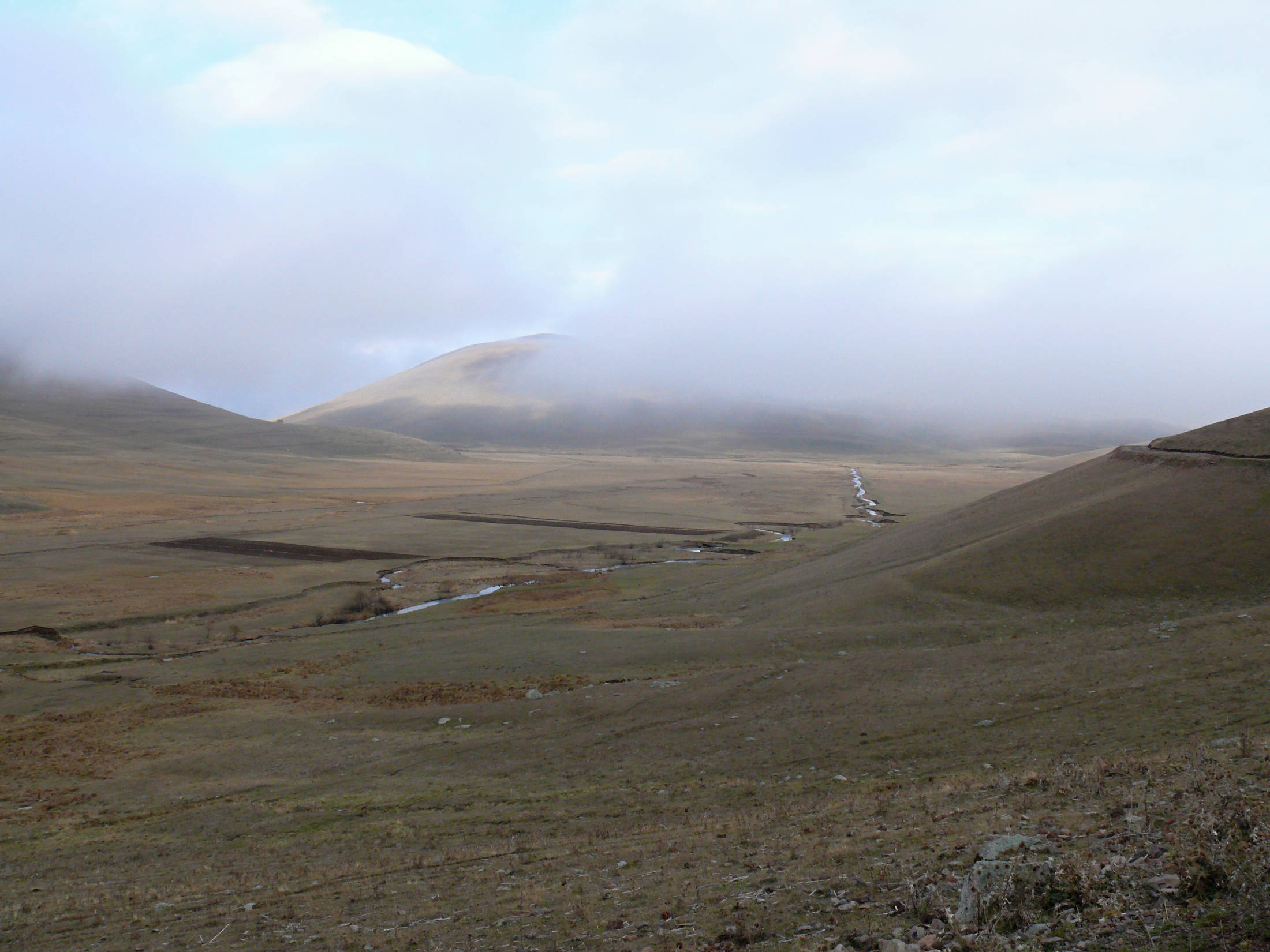 Ktsia valley near Tskhratskaro pass 2014.